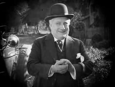 Robert Bolder in the American film Beyond The Rocks (1922).